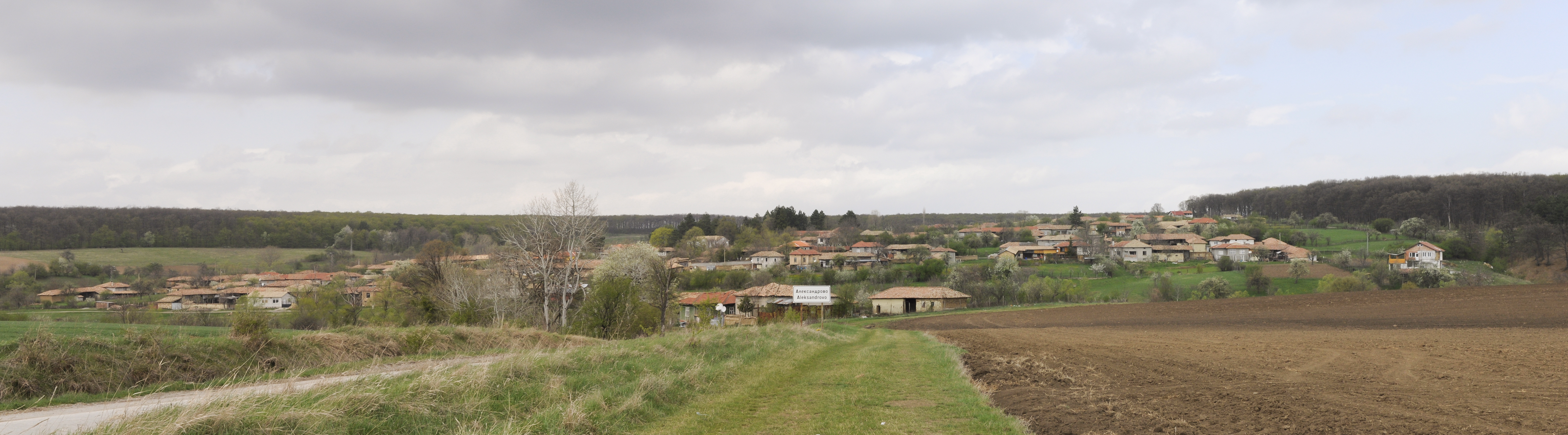 Panoramic view of Aleksandrovo village, Targovishte Province, Bulgaria.